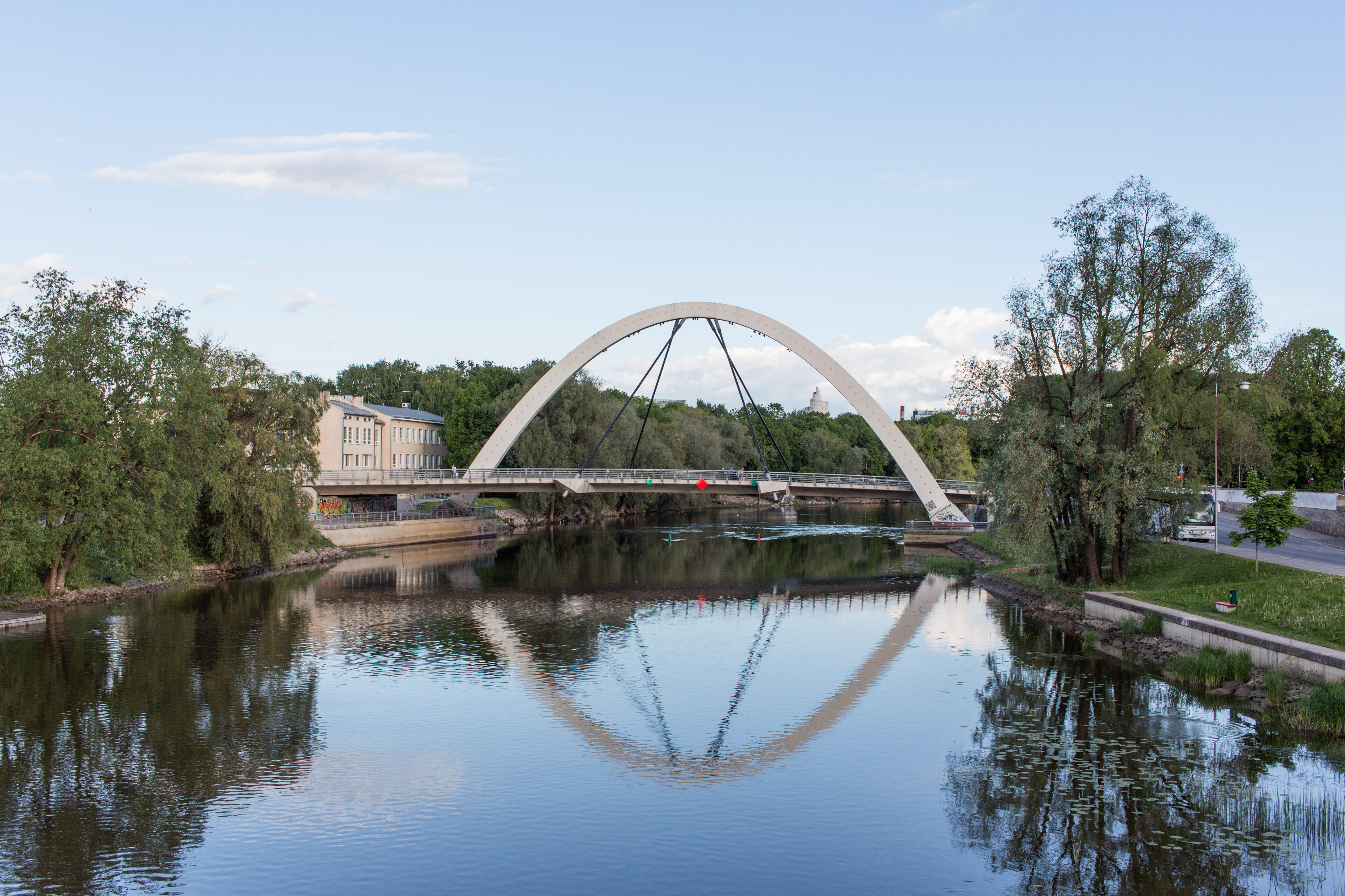 Bridge named Vabadussild in Tartu, Estonia